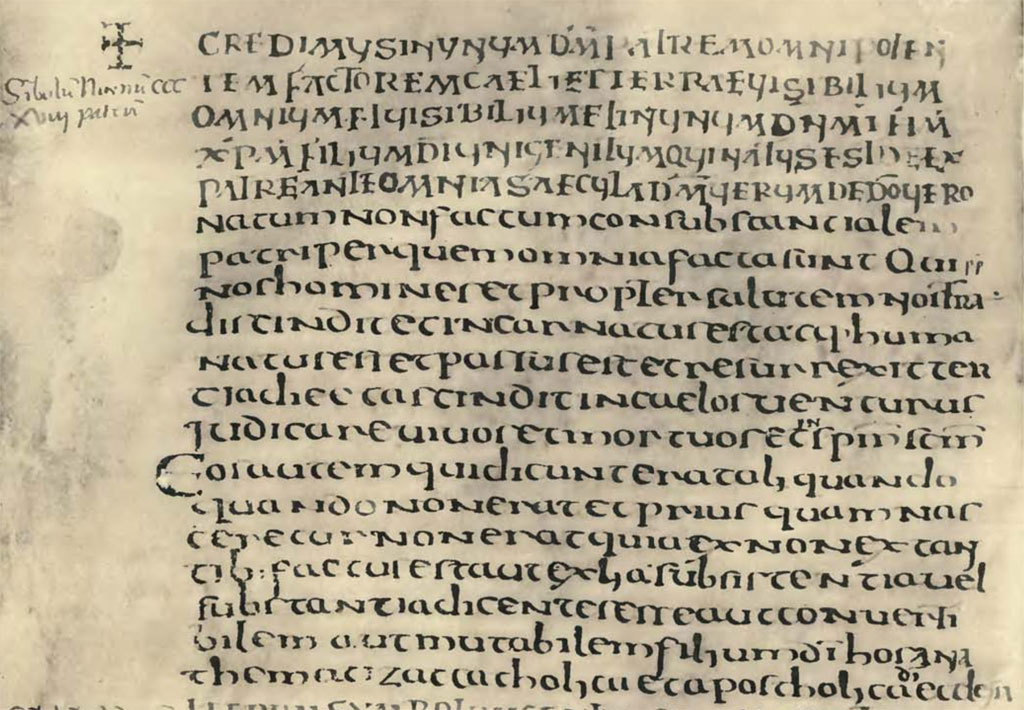 Nicene Creed in Codex Vat.